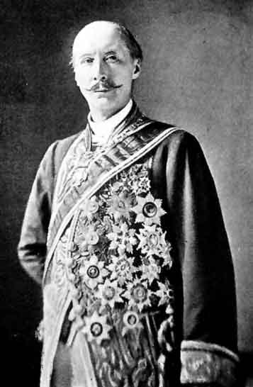 Paul von Hatzfeld zu Trachenberg (1831-1901) . COUNT HATZFELDT . From a recent photograph. He was Prime Minister of Germany and German Ambassador to London, brother-in-law of Madame de Hegermann-Lindencrone. The picture shows over sixty decorations, all the important ones of Europe, which have been given him. It is custom that the decorations of orders in diamonds are kept by the family after the death of the recipient. All other orders go back to the governments bestowing them